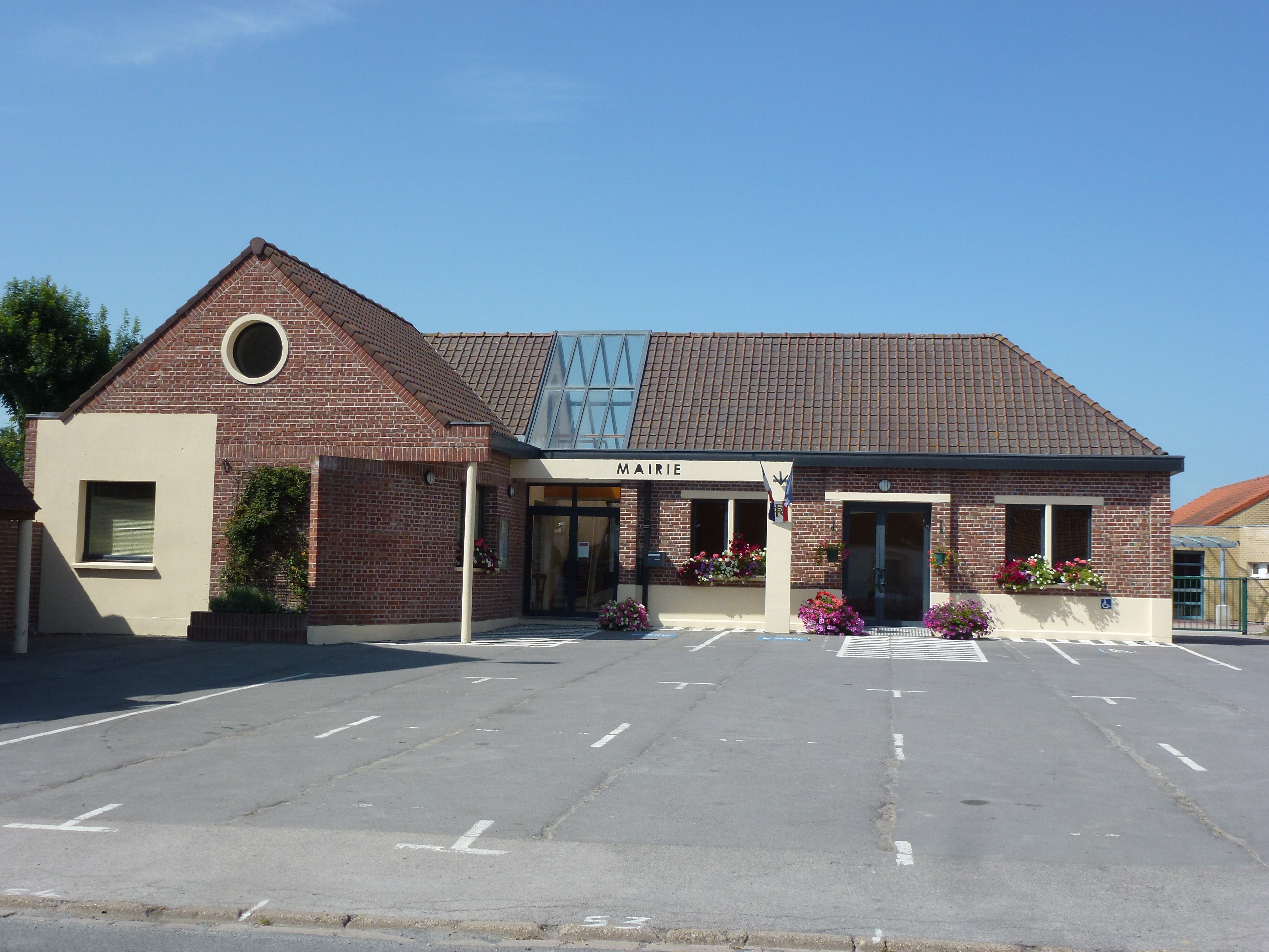 Offekerque (Pas-de-Calais) mairie